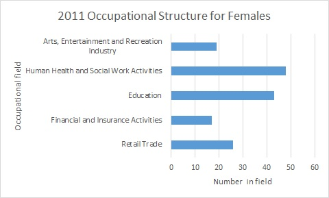 This image shows the female occupational structure in Roxwell at the time of the 2011 census